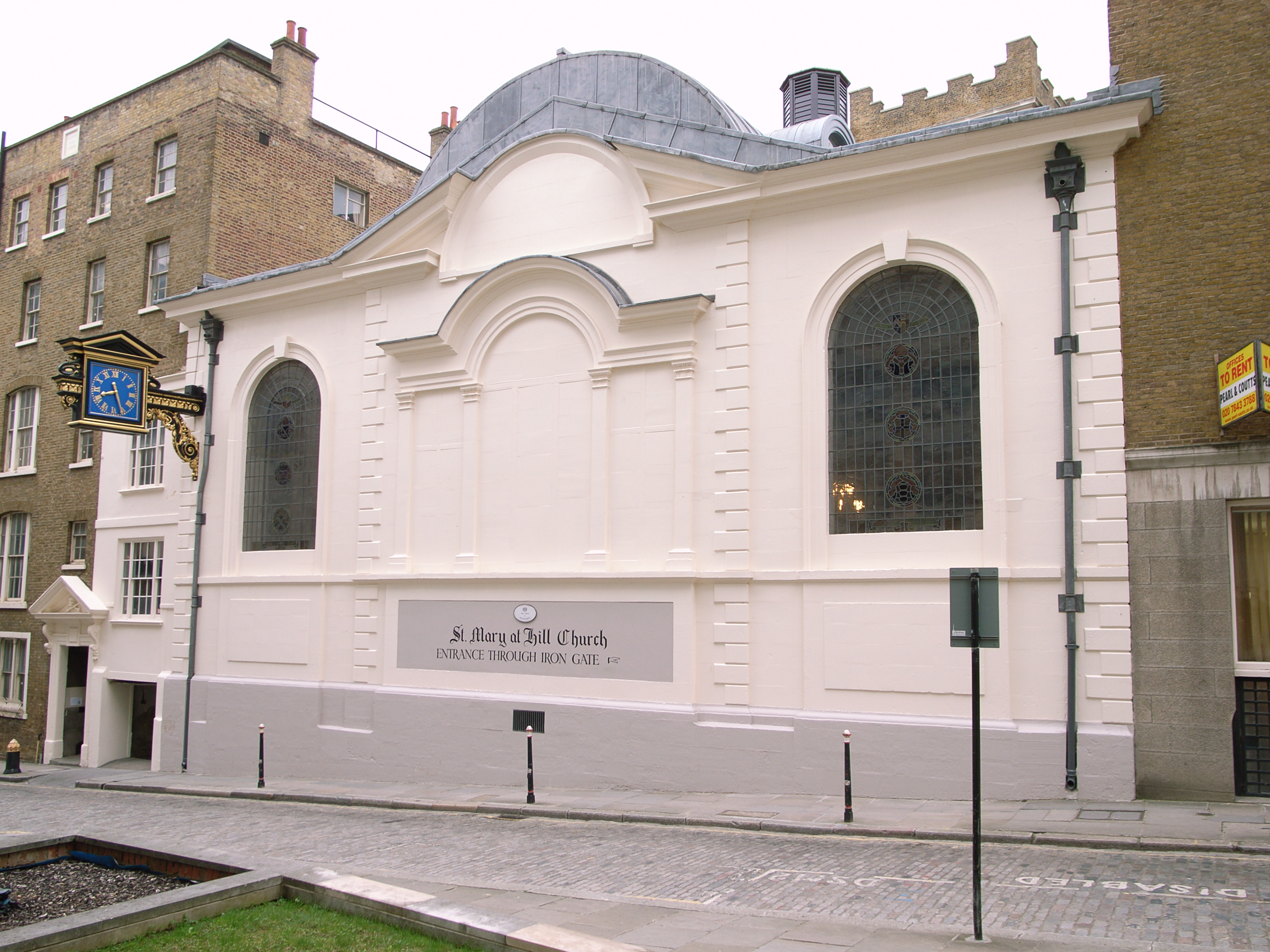 St Mary-at-Hill (1670-6) by Christopher Wren